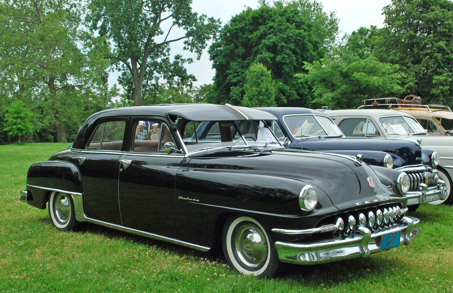 1952 DeSoto Deluxe at The 2009 Orphan Car Show at Riverside Park in Ypsilanti, Michigan. Note: block DE SOTO letters indicate 1952, but a hood should have Air Vent that year.